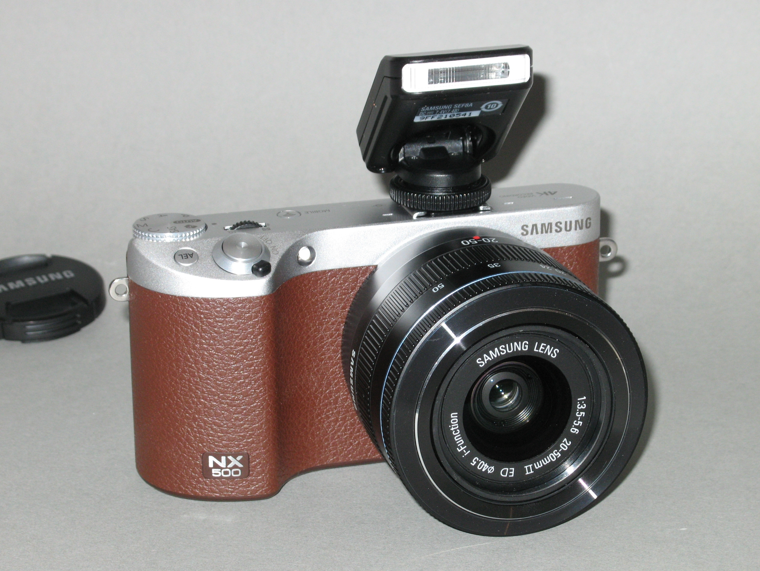 Samsung NX500, Samsung miniflash attached, Samsung 20-50mm lens